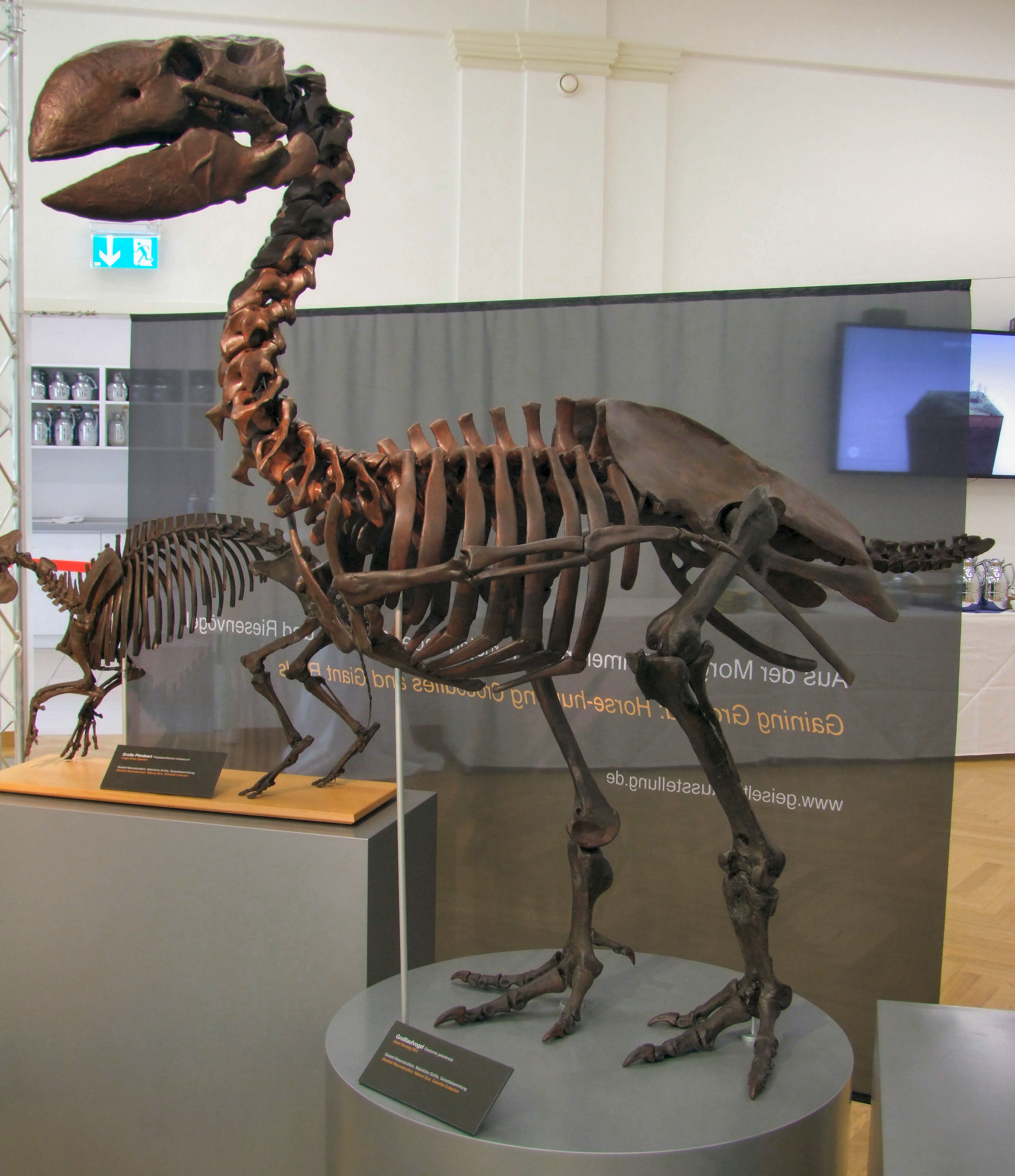 Skeletal reconstruction of Gastornis geiselensis from the Geiseltal Lagerstätte, pictured in the exhibition: Graining ground: Horse hunting crocodiles and giant birds from 6th of march to 29th of may 2015 in Halle/Saale